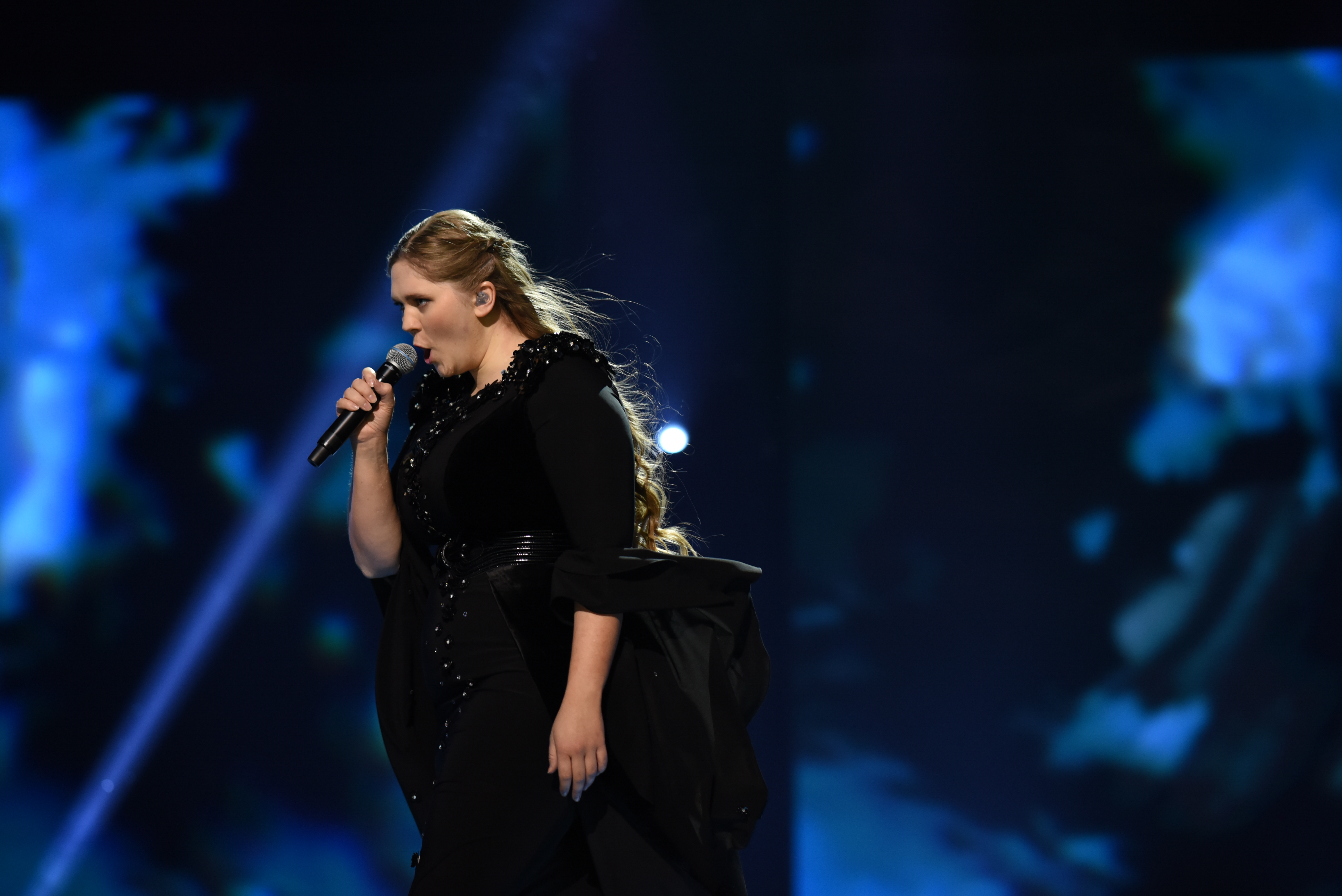 Melodi Grand Prix 2018